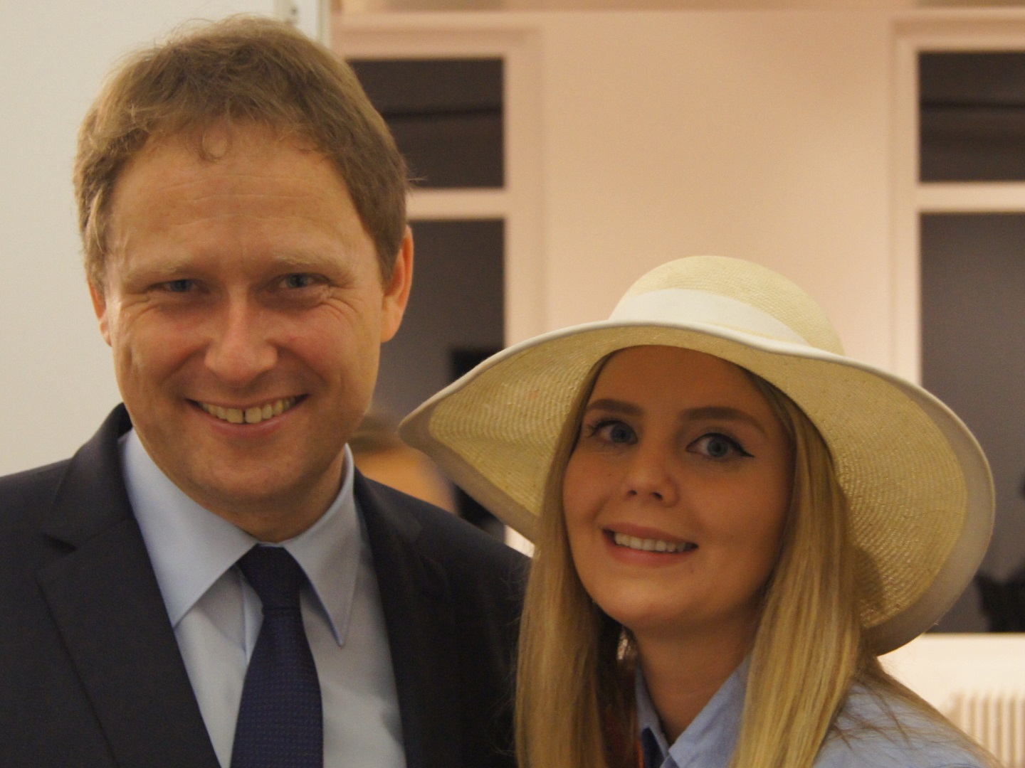 OB Martin Hebich with Jenny Neufeld, Miss Strohhut 2017/18, Frankenthal